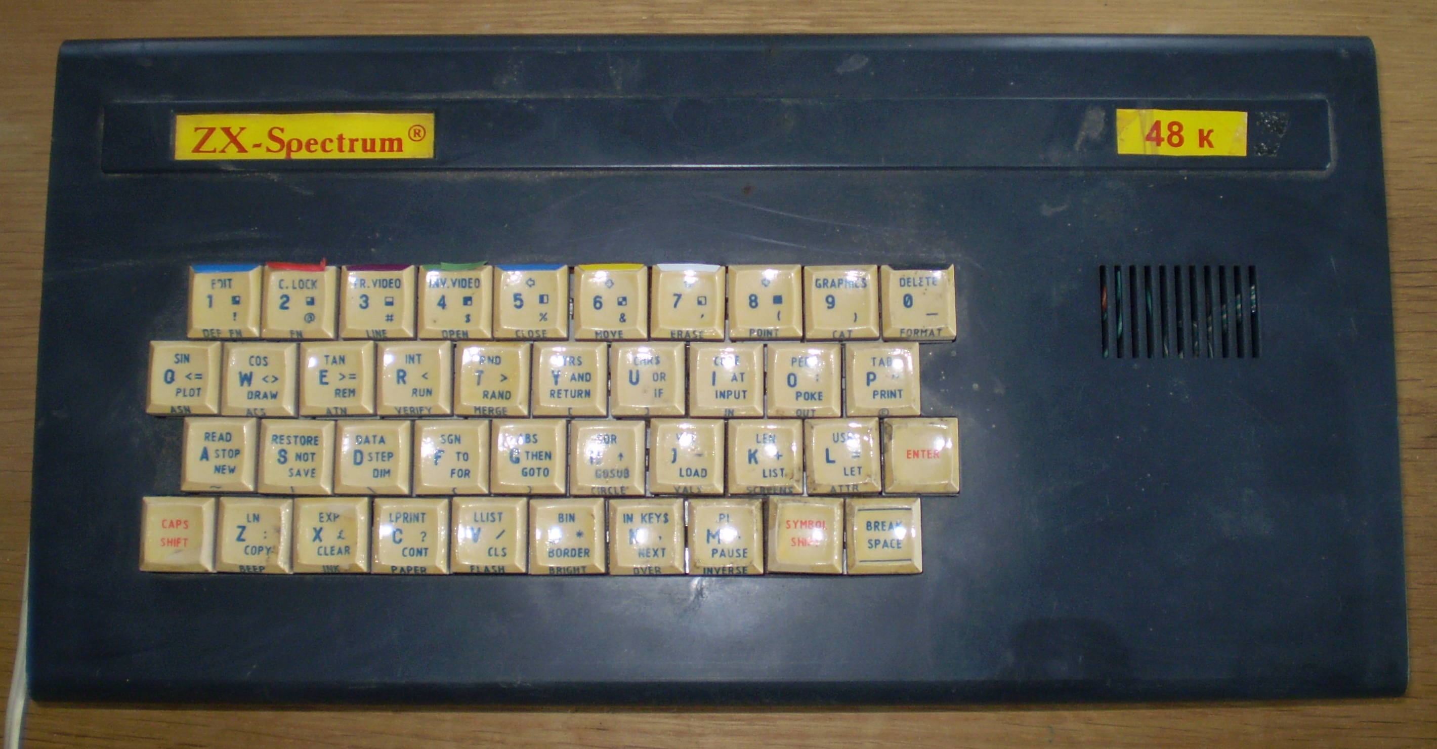 Photo of ZX Spectrum clone named Baltic Sonet